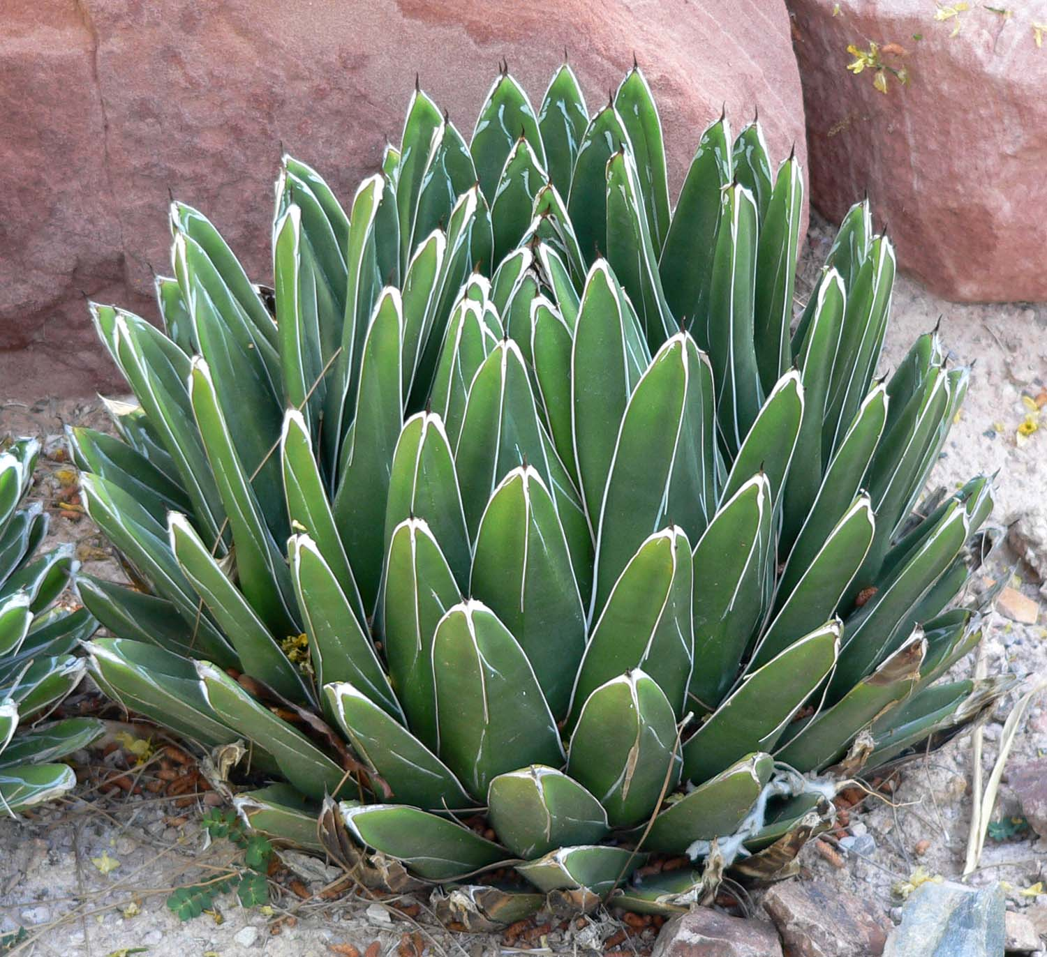 Photo of Agave victoriae-reginae at the Springs Preserve gardens in Las Vegas, Nevada